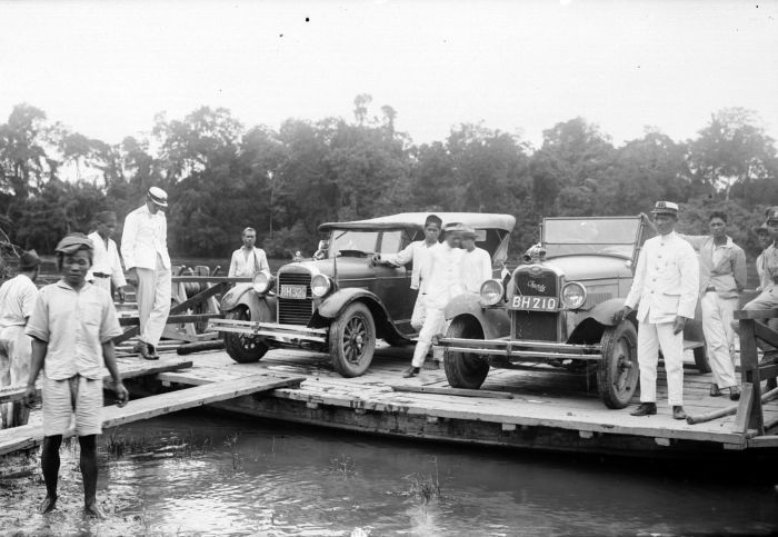 Ferry across a river in Jambi